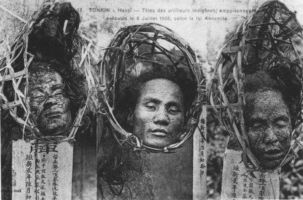 The heads of Duong Be, Tu Binh and Doi Nhan were decapitated by the French on July 8, 1908 in the "Ha Thanh Poisonning".